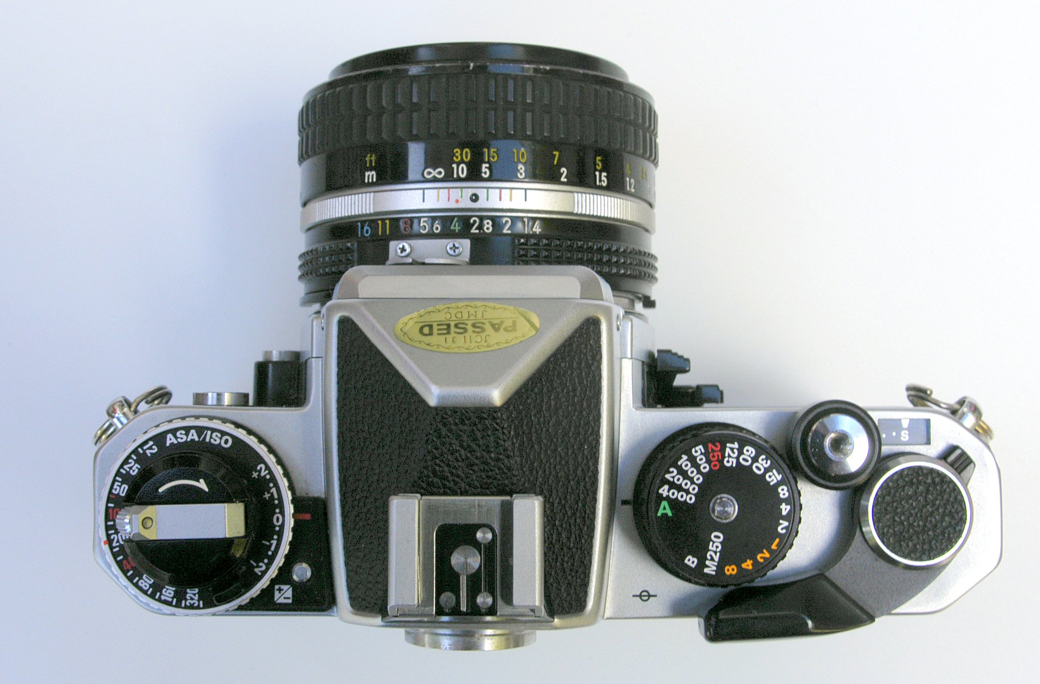 Top view of Nikon FE2 SLR camera with Nikkor 50mm f1.4 lens